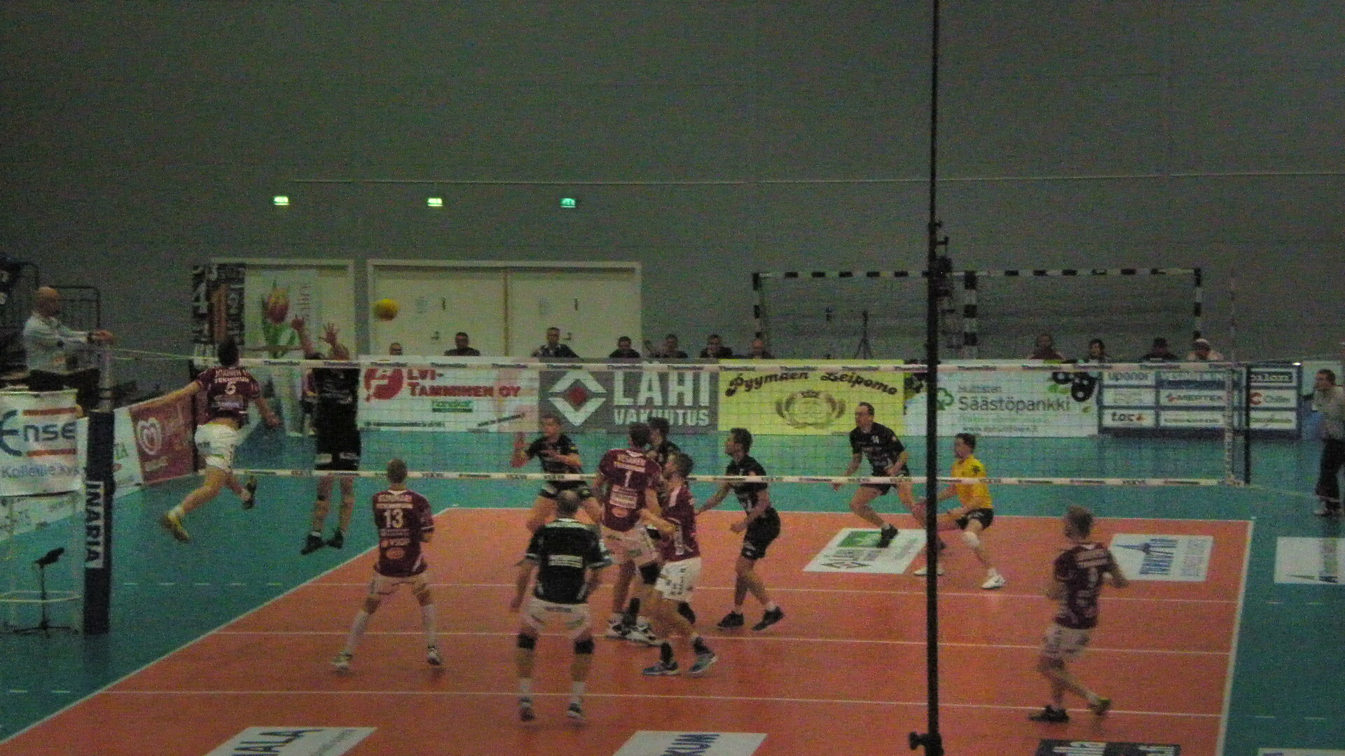 Timo Jokinen hits during 2012 final series of VaLePa and Hurricaani